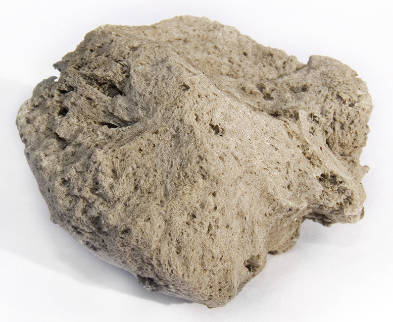 Pumice is a textural term for a volcanic rock that is a solidified frothy lava typically created when super-heated